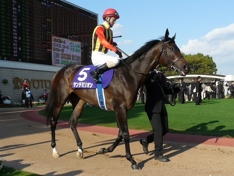 Saint-Emillion(horse)20101017